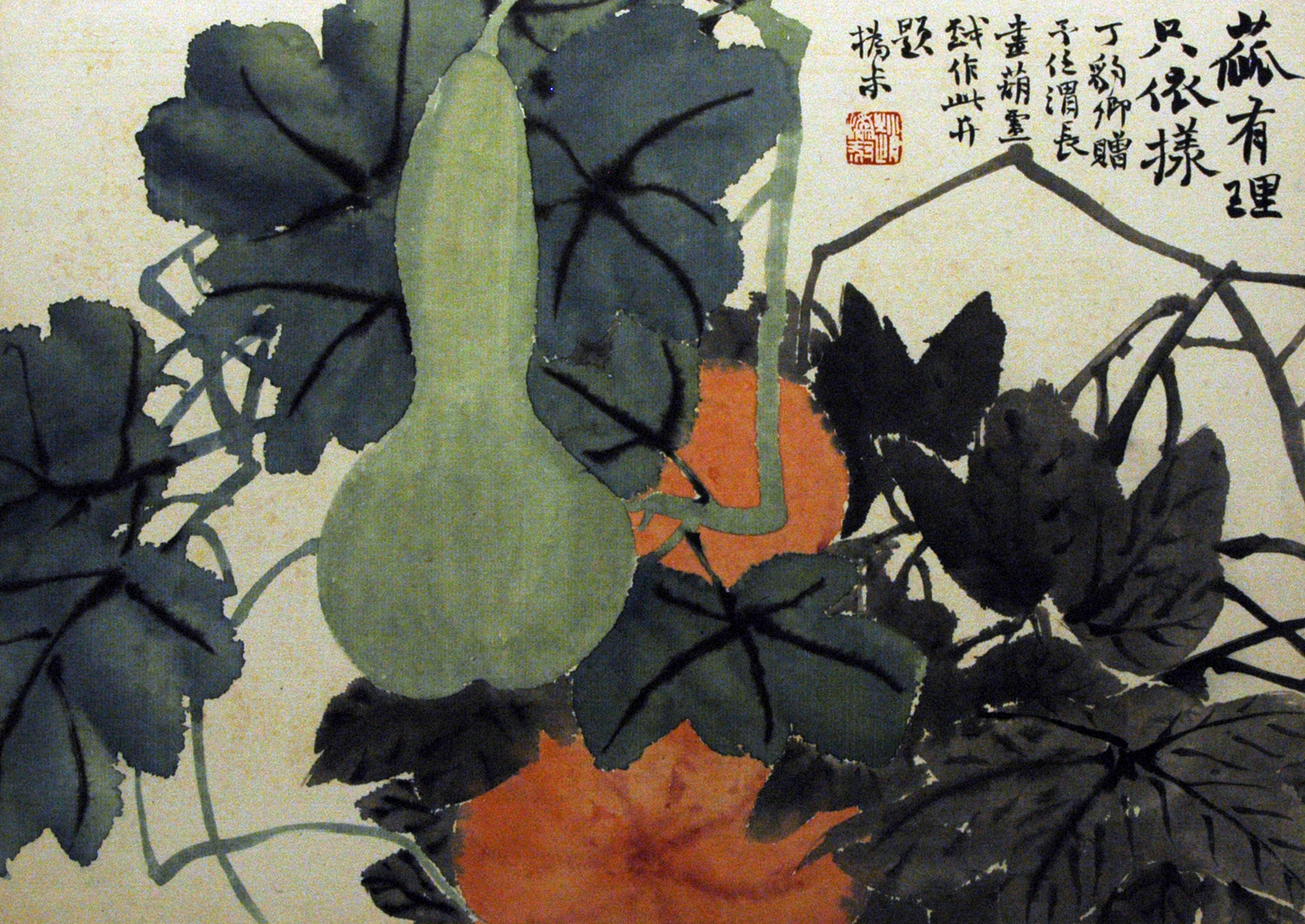 A left from the album "Flowers" by Zhao Zhiqian (1829-1884). This album was completed in the 9th year of the Xiangfeng reign (1859).